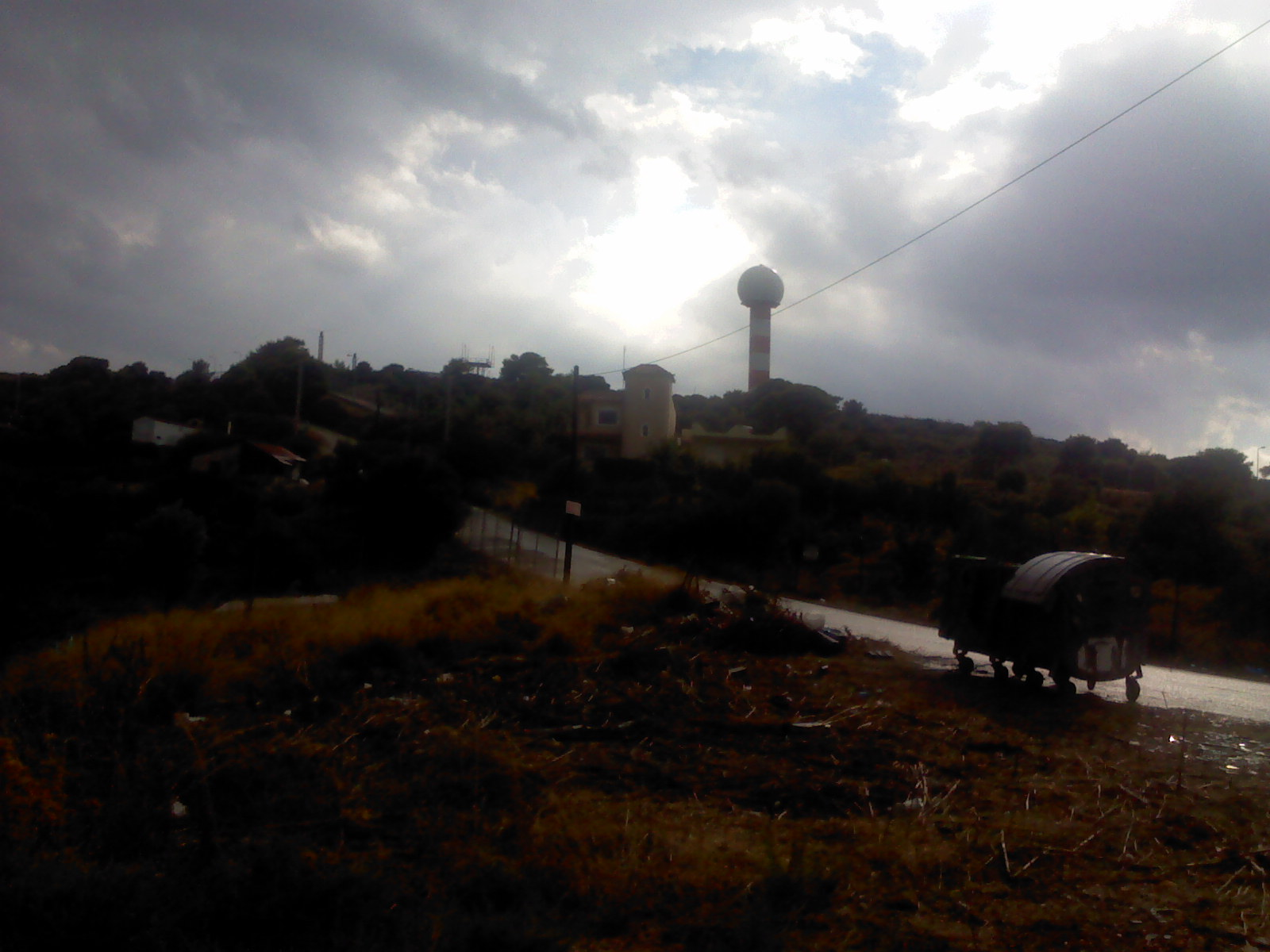 Green hill Artemida